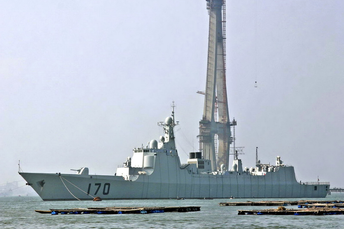 A Chinese fleet on Hangzhou Bay — before the construction of Hangchow Bay Bridge.